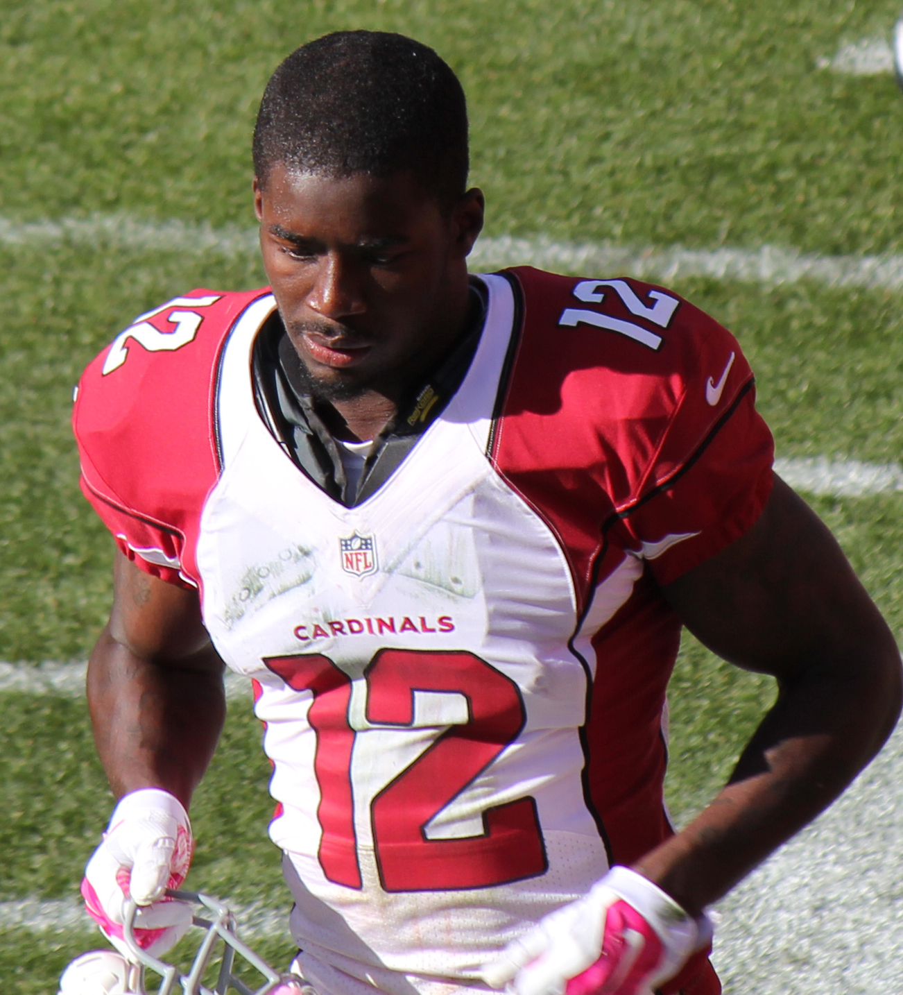 John Brown, a player on the National Football League.